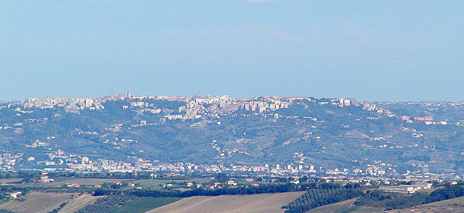 View of Chieti, Italy